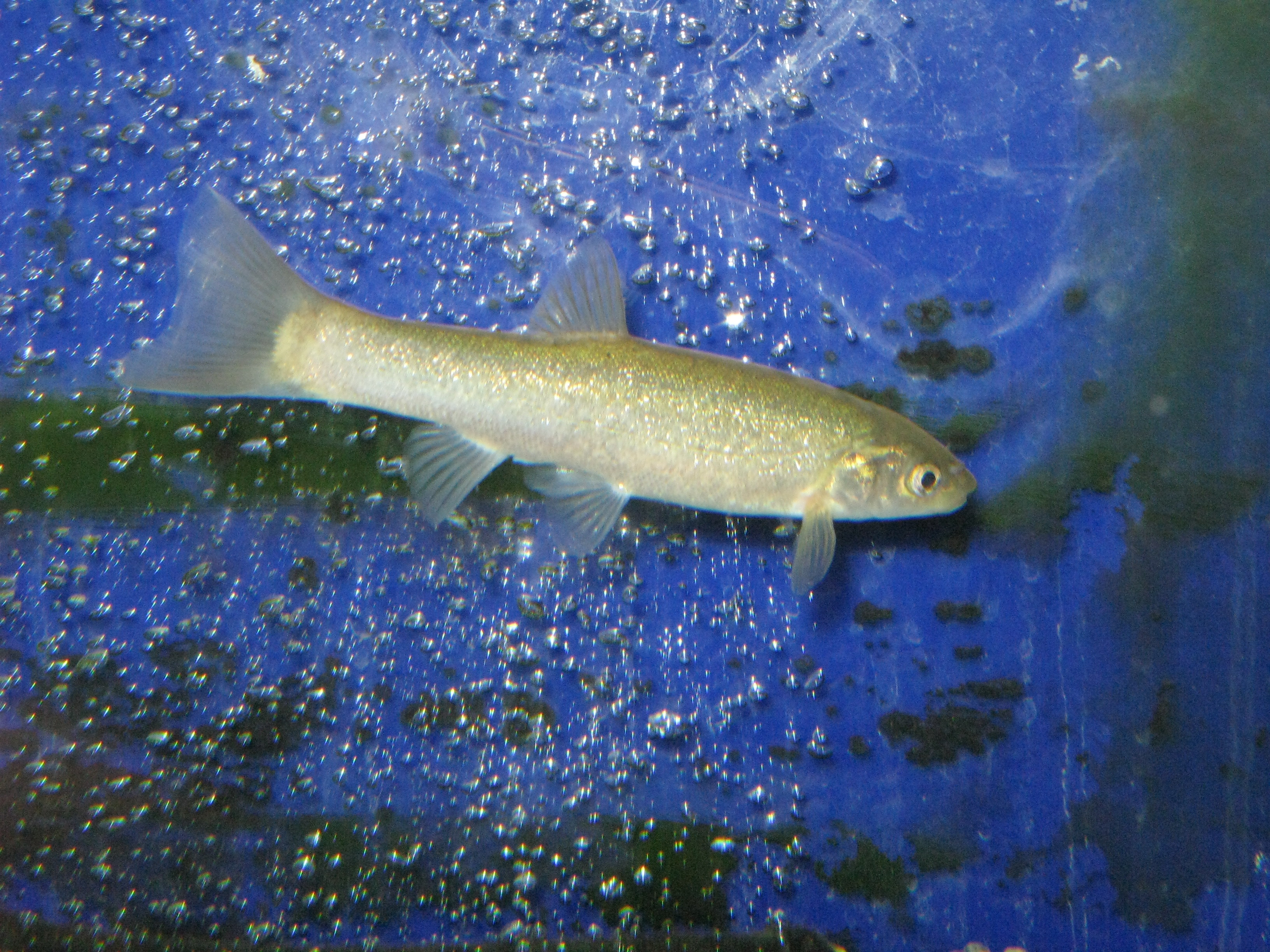 Scientific name Phoxinus oxycephalus jouyi